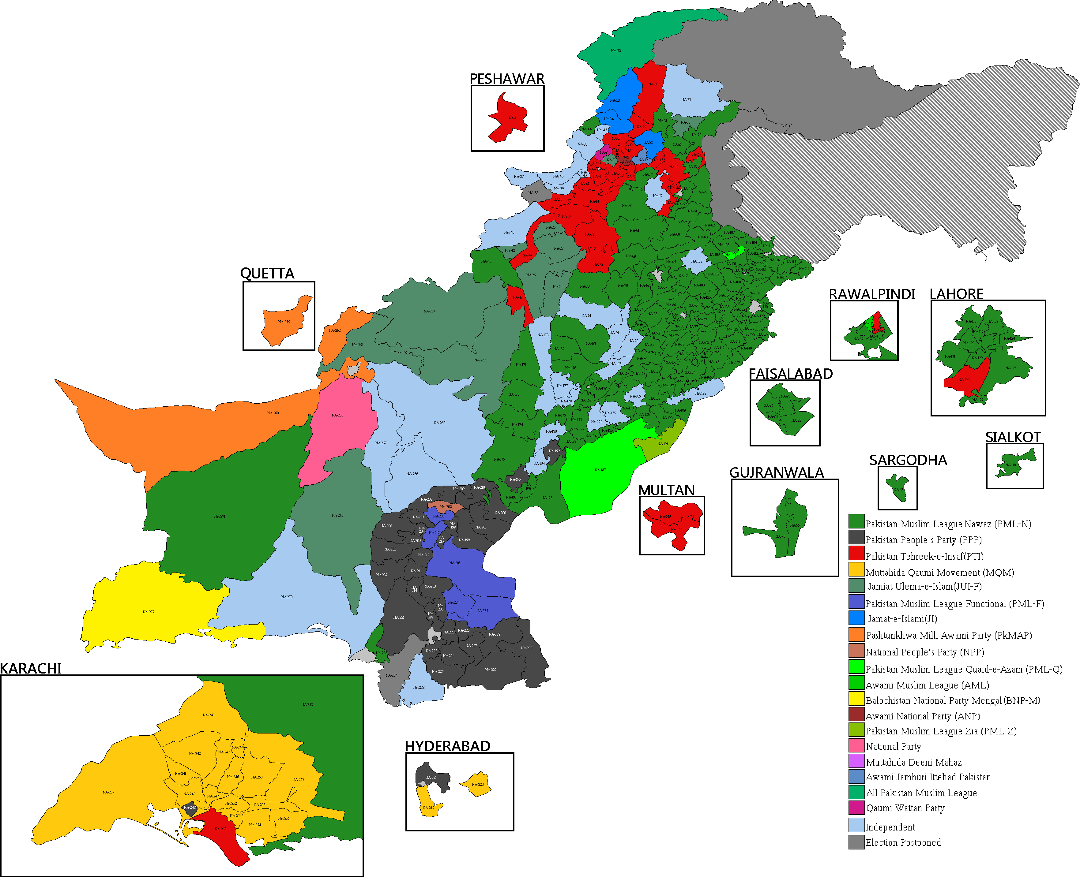 Map of Pakistan showing National Assembly Constituencies and winning parties